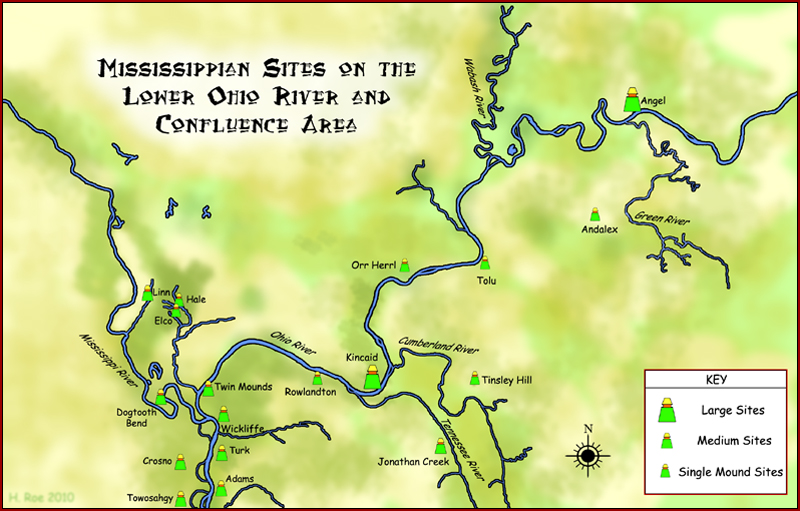 A map showing Mississippian culture mound sites on the Lower Ohio River